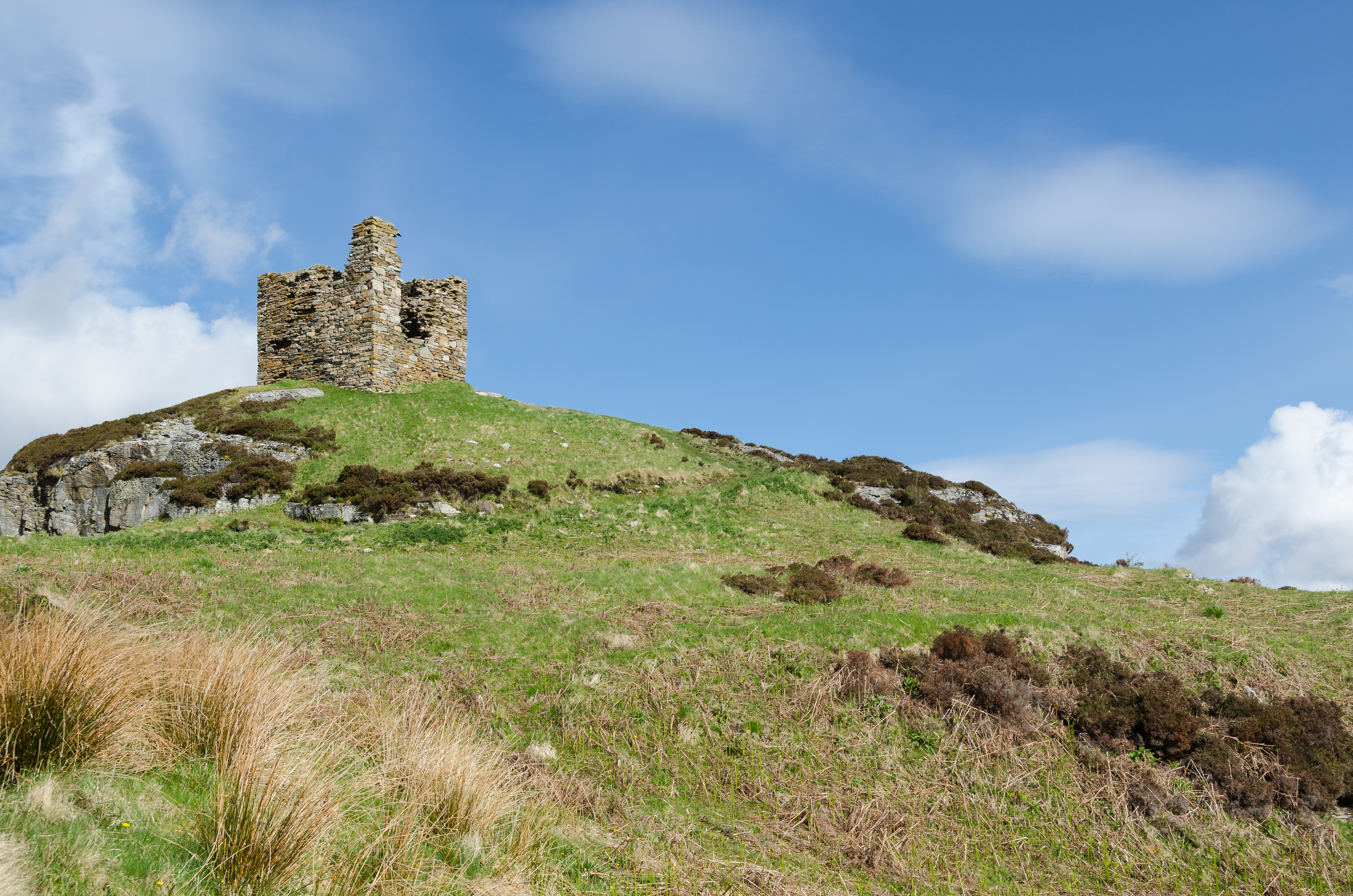 Castle Varrich near Tongue, Highland, Scotland